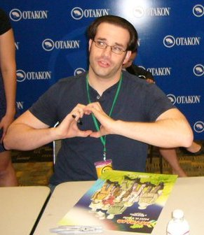 Picture of J. Michael Tatum taken at the Hetalia voice actor autograph session at the 2011 Otakon. Tatum plays the character of France.